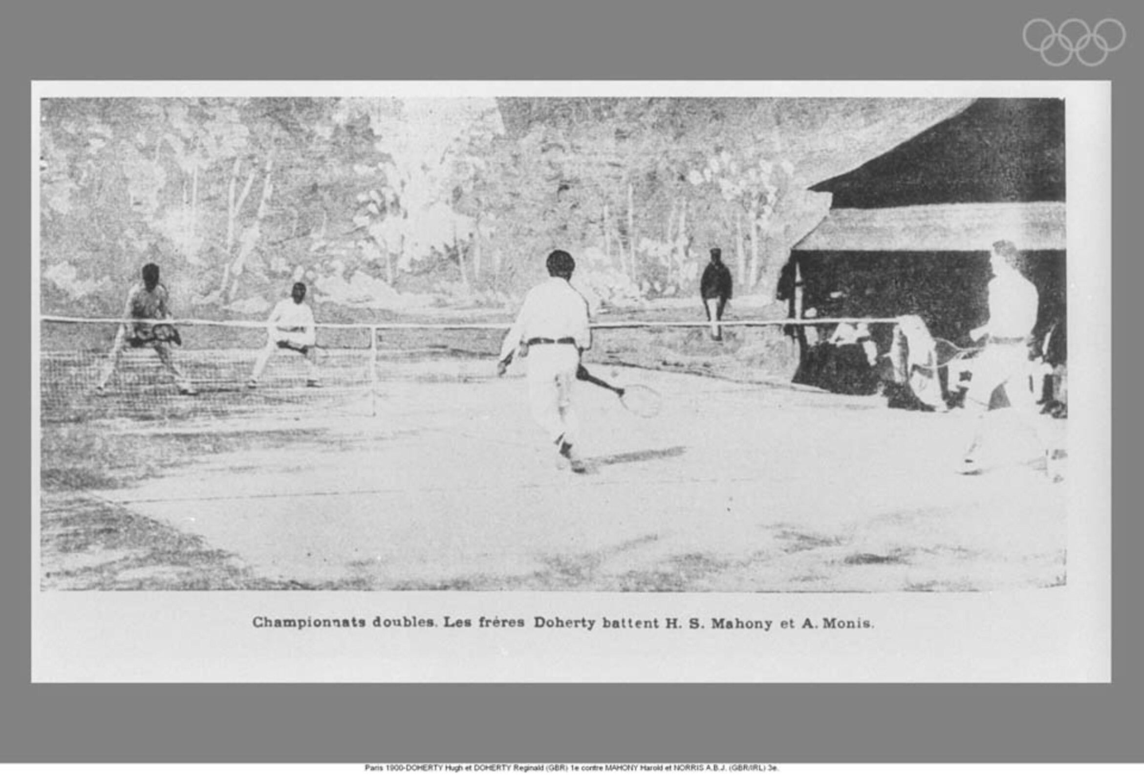 Paris 1900-Tennis-DOHERTY Hugh and DOHERTY Reginald (GBR) - MAHONY Harold and NORRIS A.B.J. (GBR-IRL)